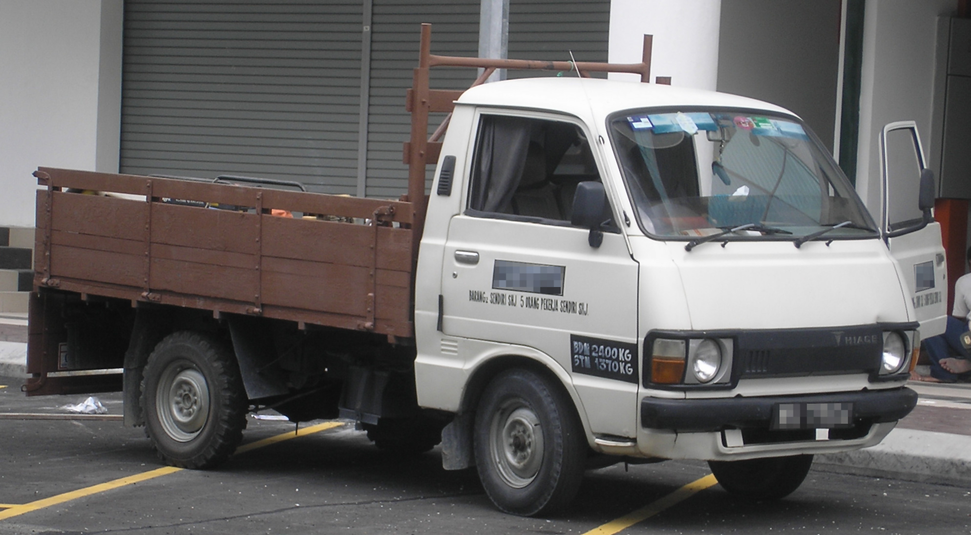 Front quarter view of a second generation, first facelift Toyota Hiace pickup, in Serdang, Selangor, Malaysia.